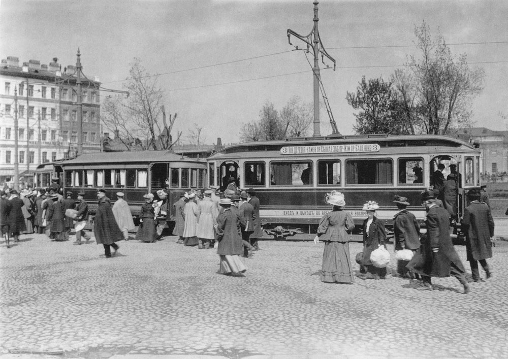 St. Petersburg's tram on the Baltiysky railway station.